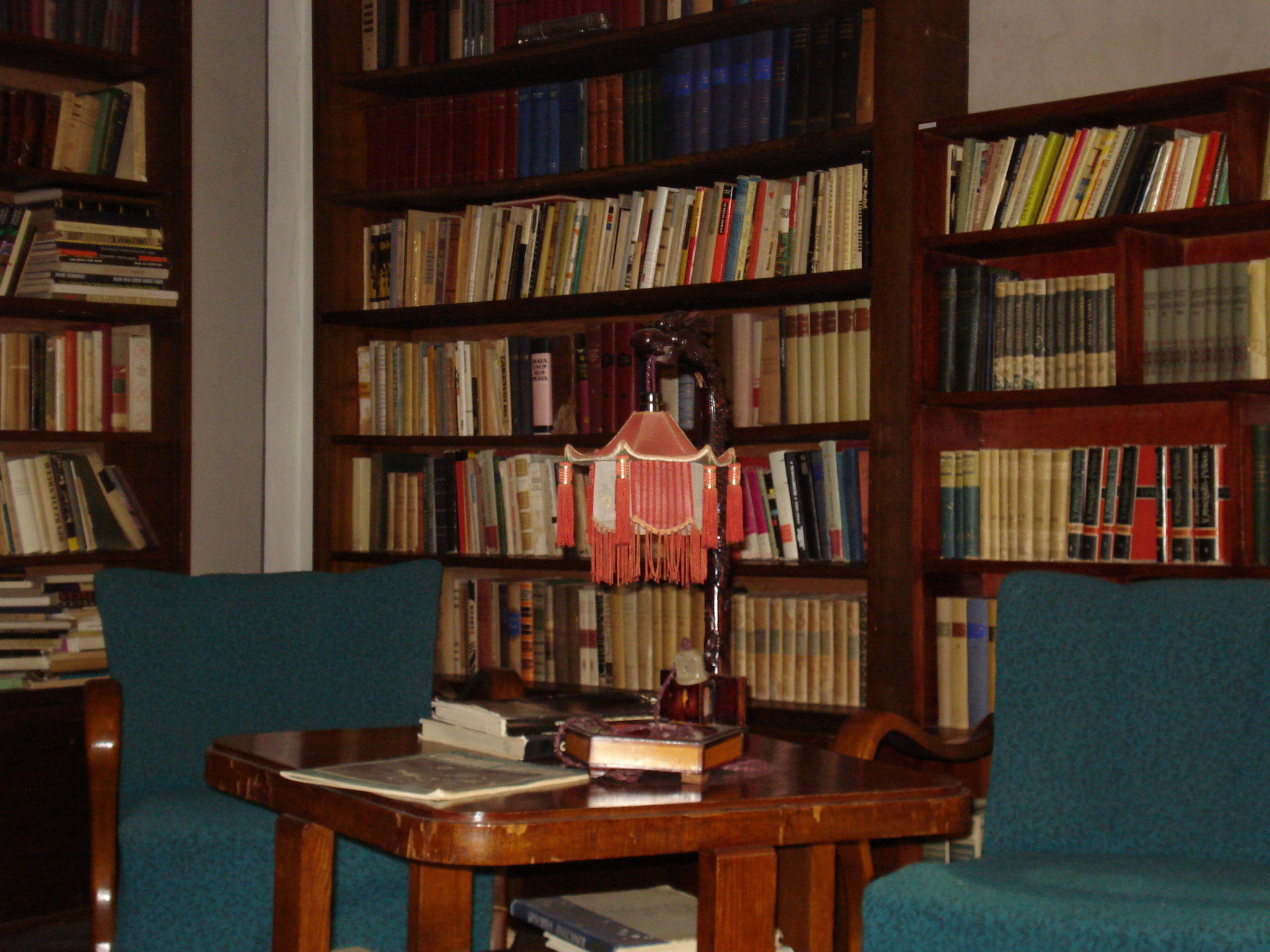 Memorial library of Lithuanian writer Antanas Venclova. The exposition in the house-museum of Venclova Family in Vilnius. Pamenkalnio g. 34.